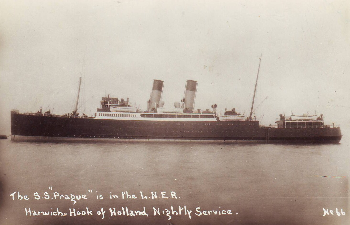 Prague Built in 1930 by John Brown and Company at Clydebank, Sold in 1941 to the Ministry of War Transport and converted to a troopship. Returned to LNER in 1945 and re-opened the Hook of Holland service she was sent for an overdue refurbishment but was gutted by fire and sank whilst at the shipyard. She was raised and towed to Barrow in September of 1947 where she was broken up.